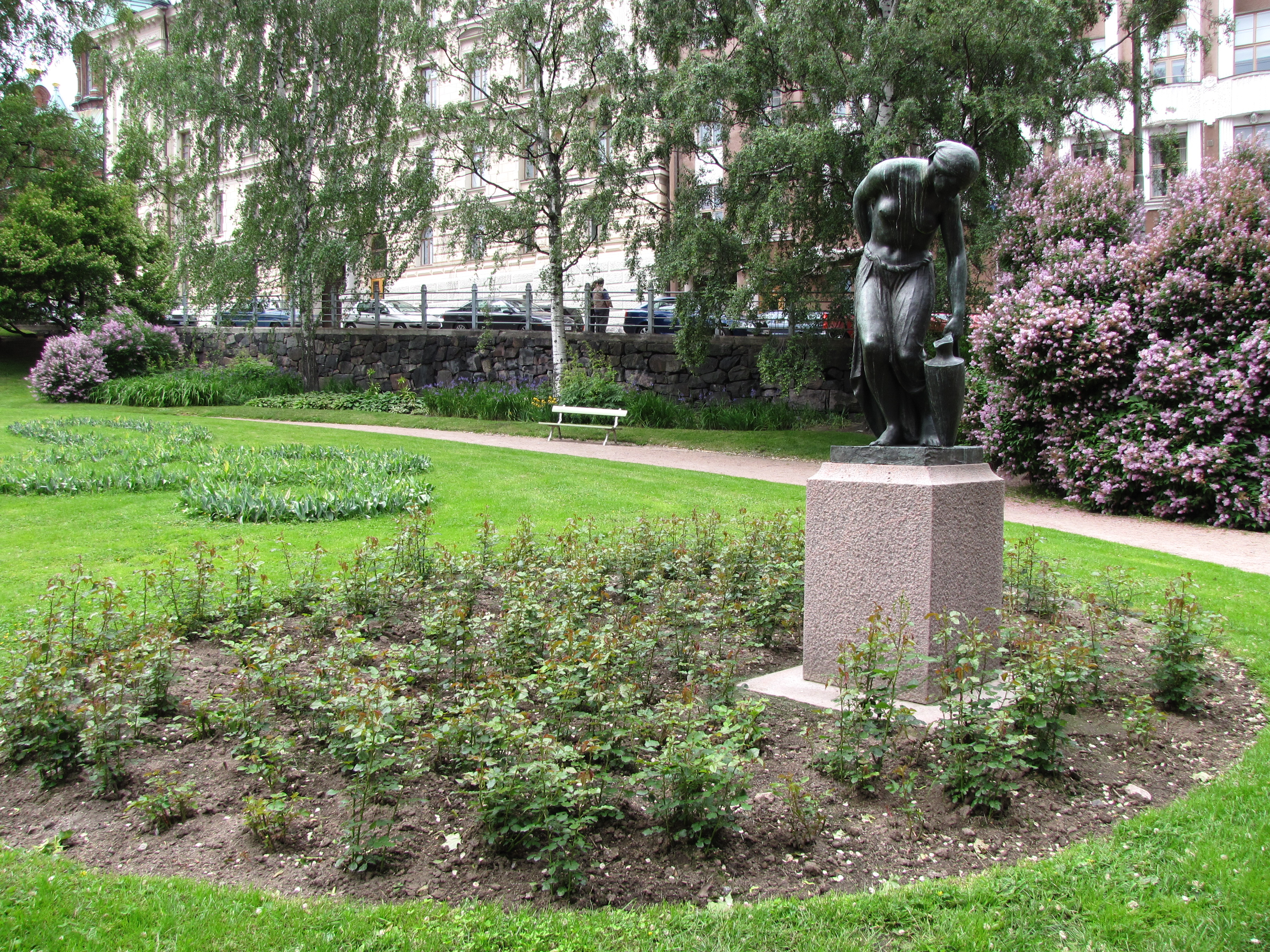 Vedenkantaja (The Water Bearer) by Viktor Malmberg (1867 - 1936), sculpted in 1923 and placed in Katajanokan puisto park in 1924.